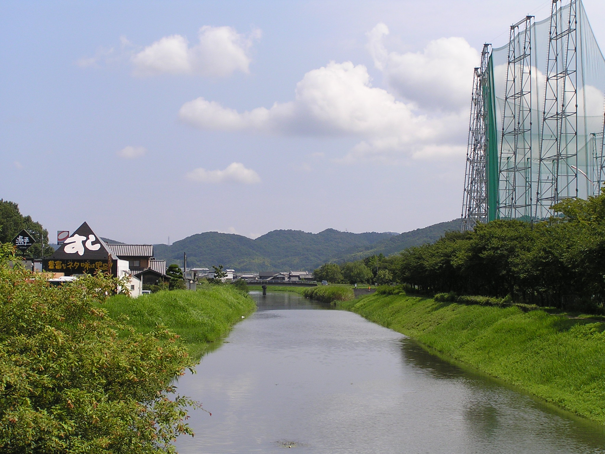 The vicinity of Kurashiki river of Kasuyama